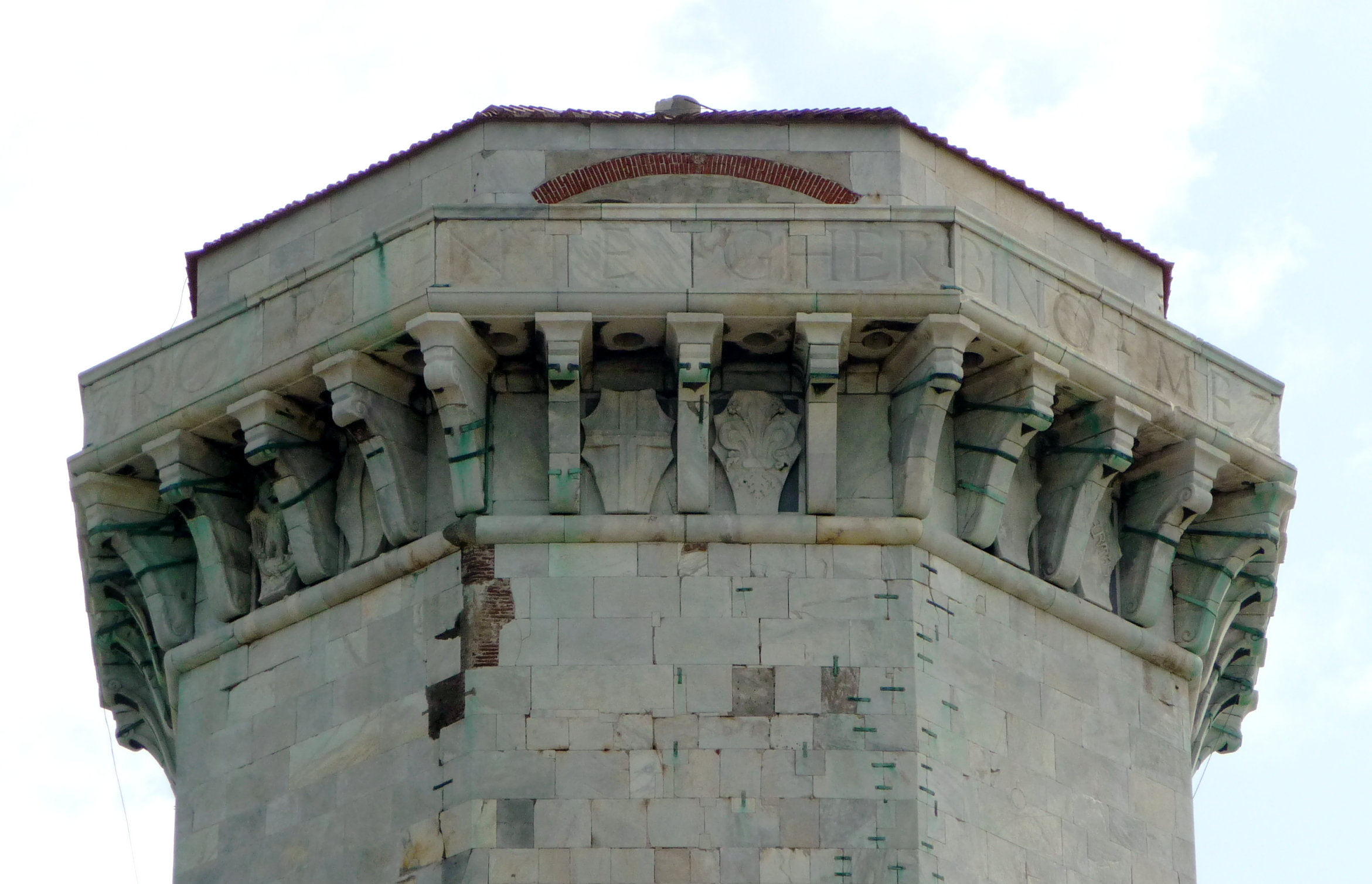 Torre del Marzocco, Port of Livorno, Tuscany, Italy - Coastal tower (15th century)